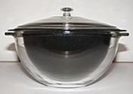 The HotPot cooking vessel consists of a dark pot suspended inside a clear pot with a clear lid. Solar Household Energy, Inc.